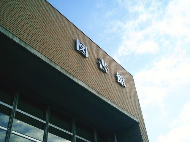 Nagaoka City Central Library in Nagaoka, Niigata Prefecture, Japan